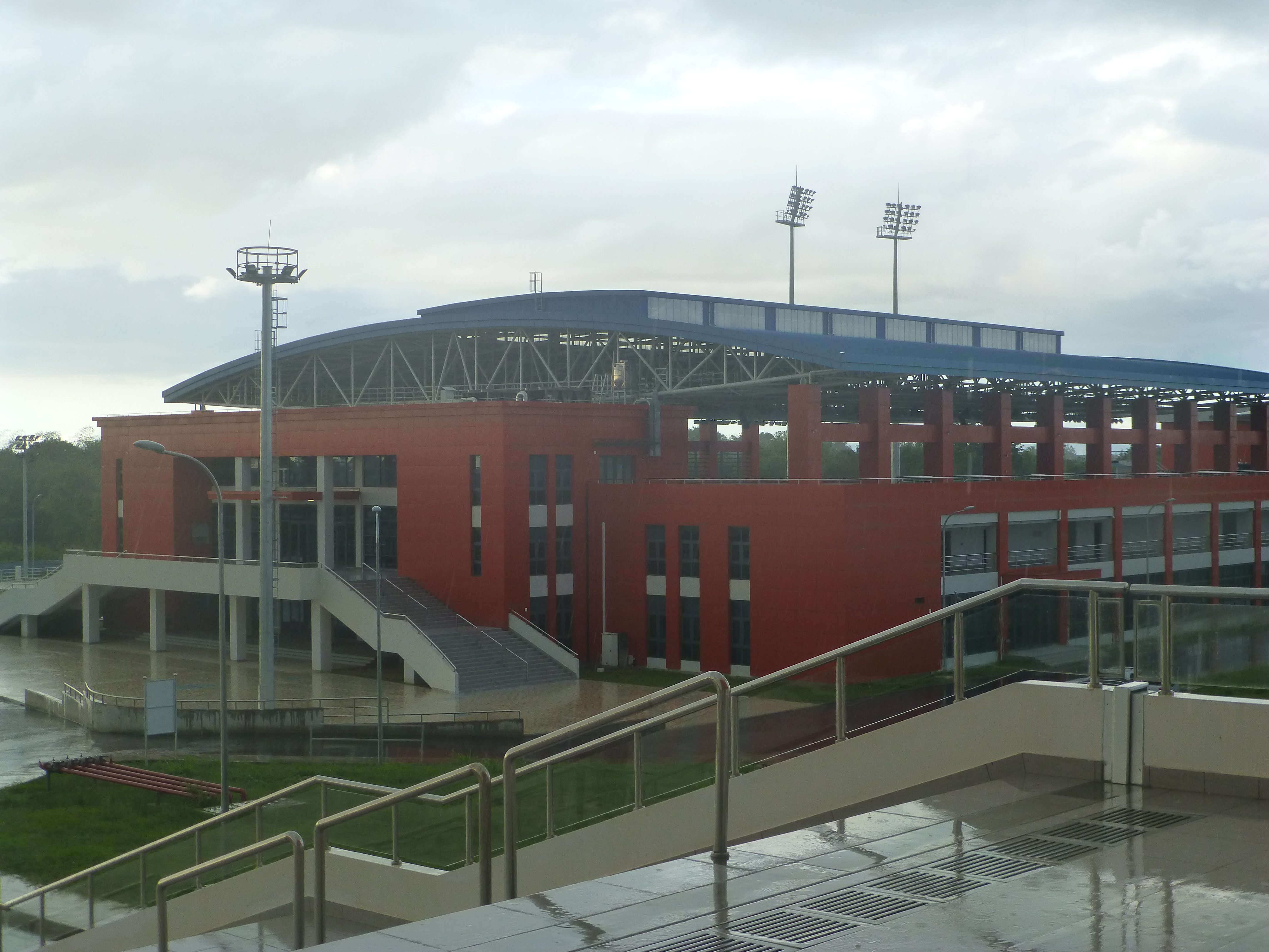 National Aquatic Centre, Couva, Couva-Tabaquite-Talparo, Trinidad and Tobago.